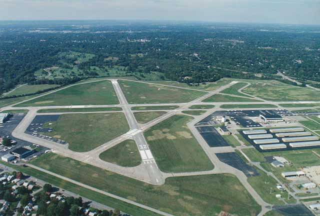 Bowman Field Airport (KLOU) in Louisville, Kentucky.